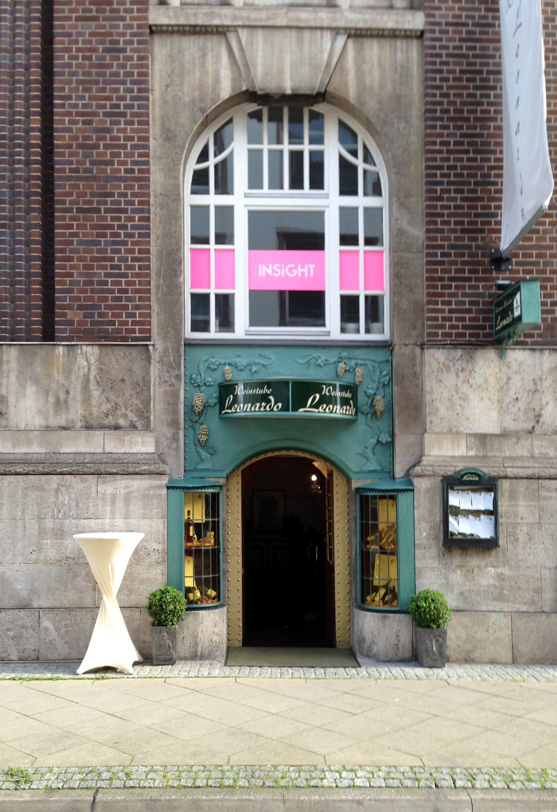 Sophienstraße 6 (Hannover) Eingang zur Weinstube